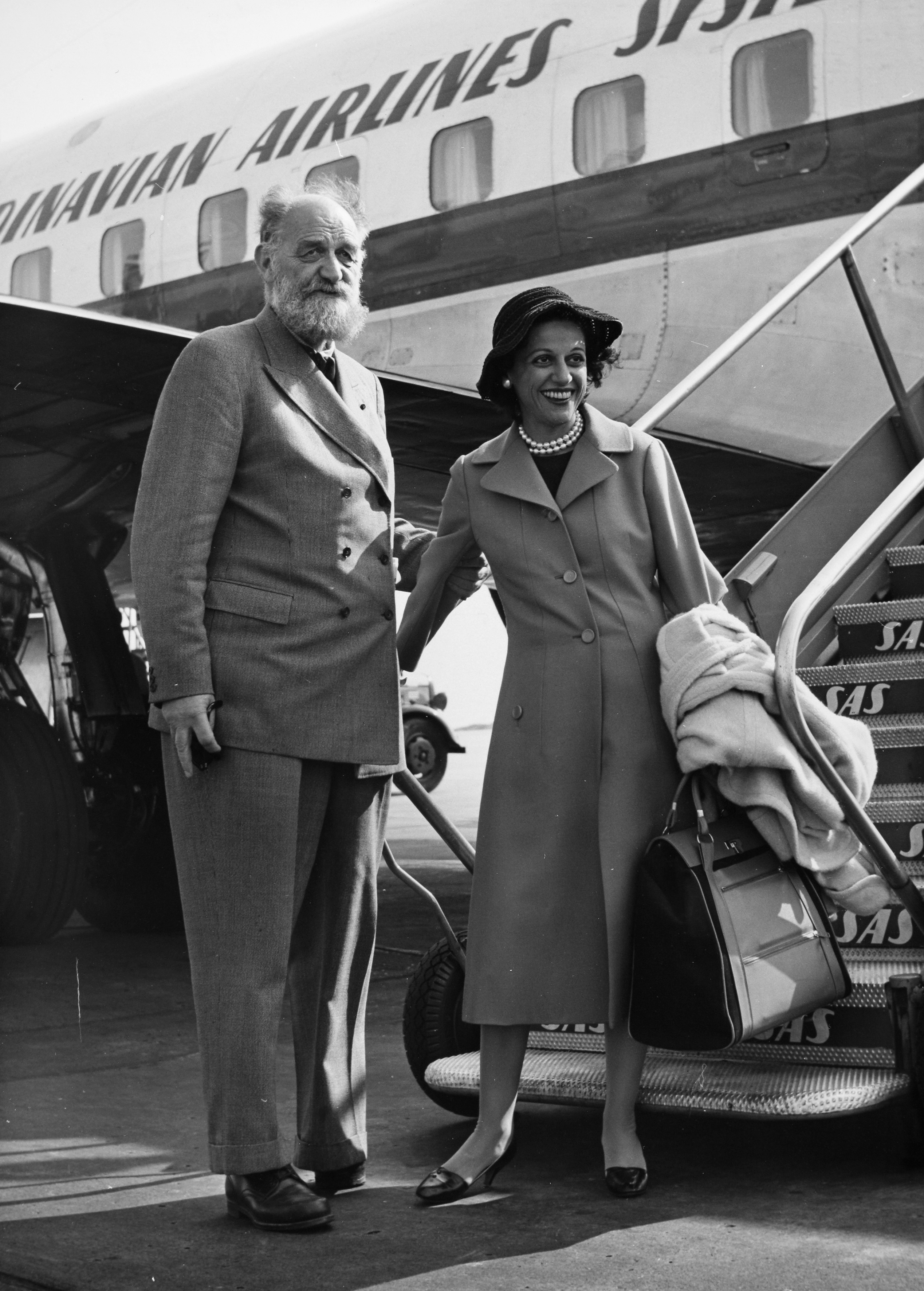 Peter Freuchen with wife Dagmar Cohn. Danish scientist on the icecap at Greeland. 1950s. Work with Knud Rasmussen crossing the Greenland icecap